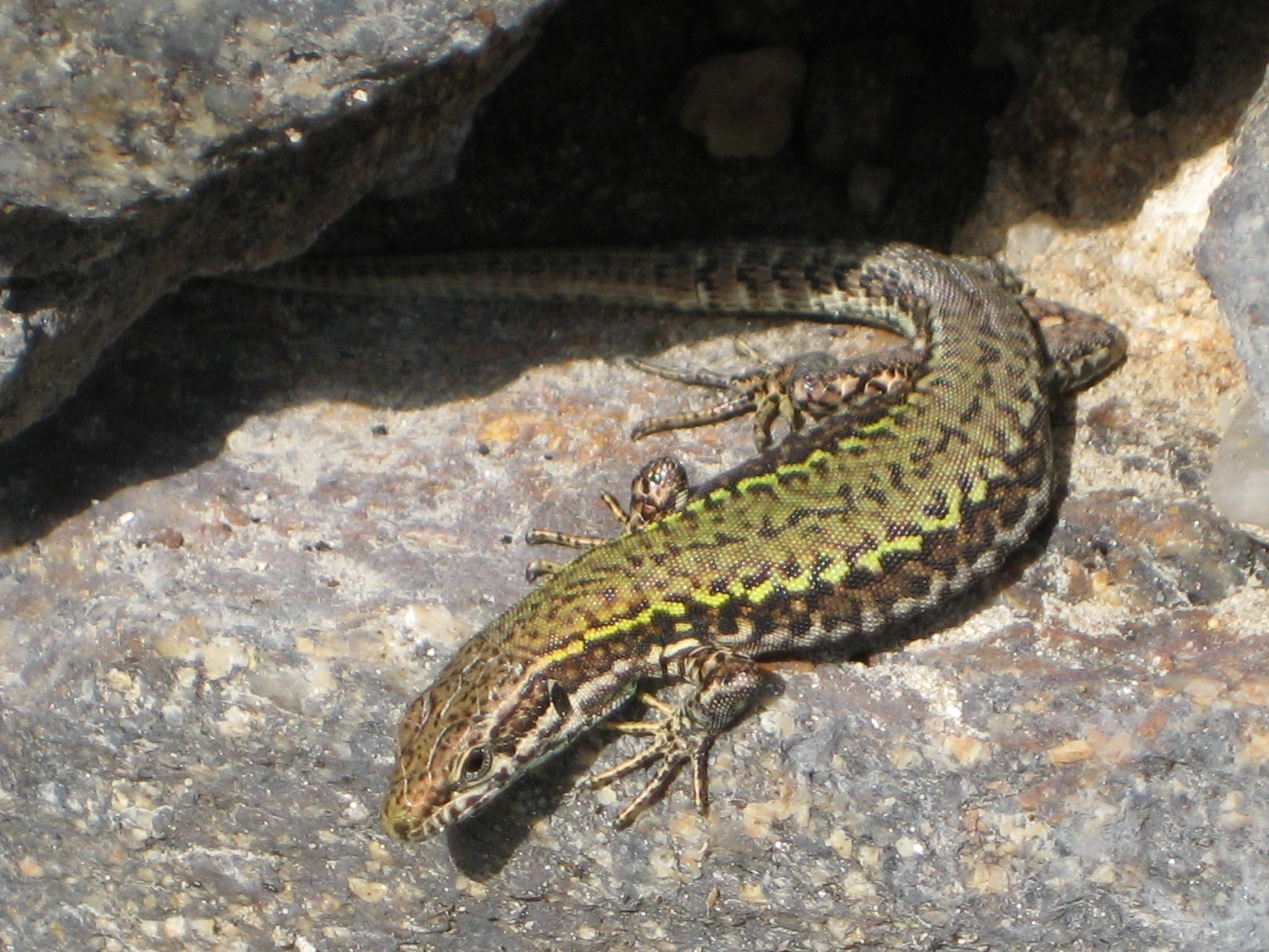 Wall lizard in Passau